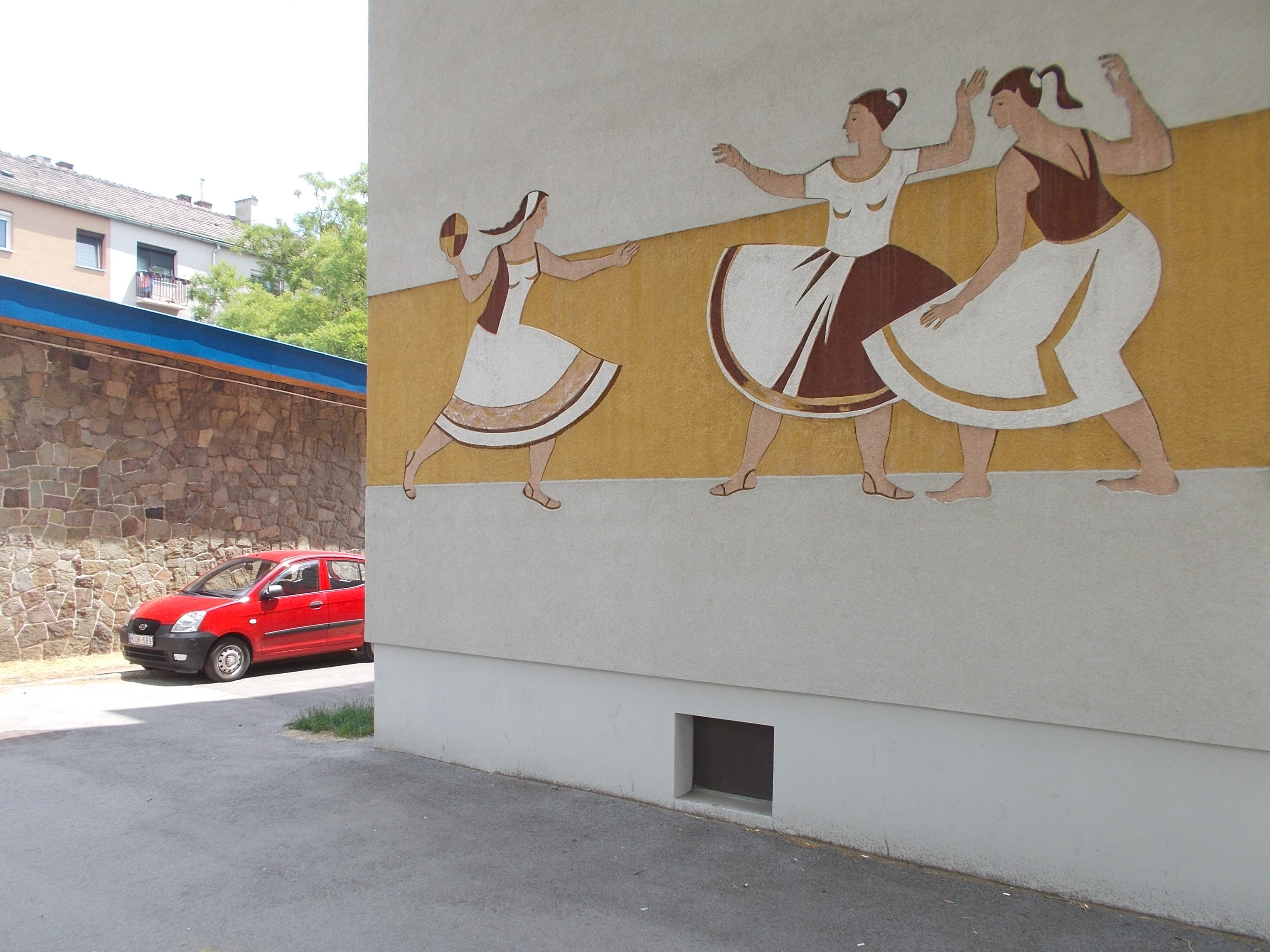 Ball playing girls/young women by Sarkantyu Simon (1959, replica by Zámbó Kornél, 2012). - 8? Rákóczi street, Oroszlány, Komárom-Esztergom County.